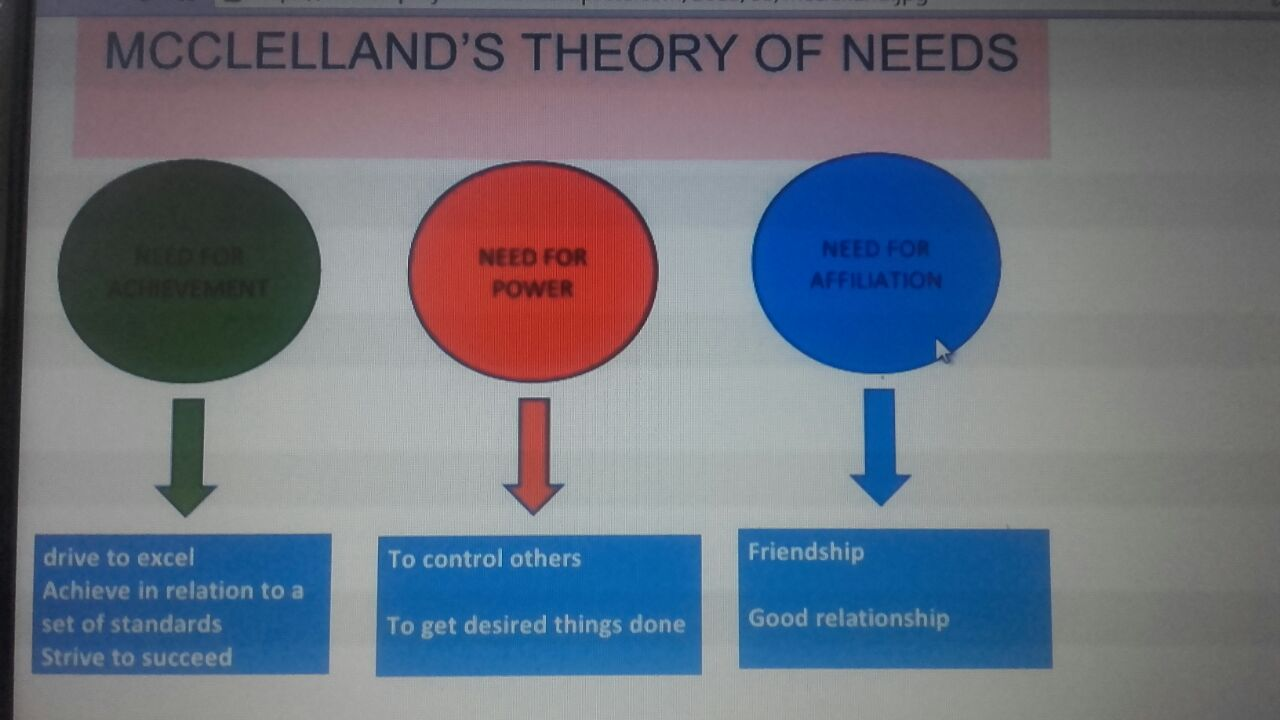 mcllends achievement needs theory